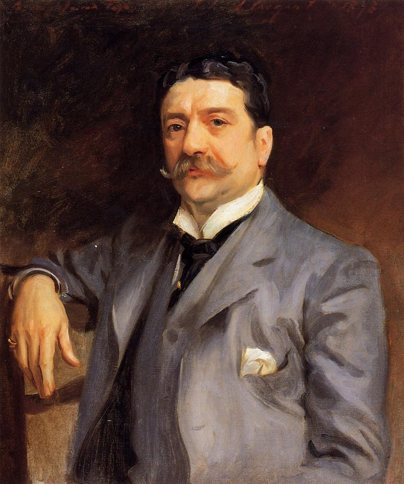 Portrait of Louis Alexander Fagan John Singer Sargent -- American painter 1893